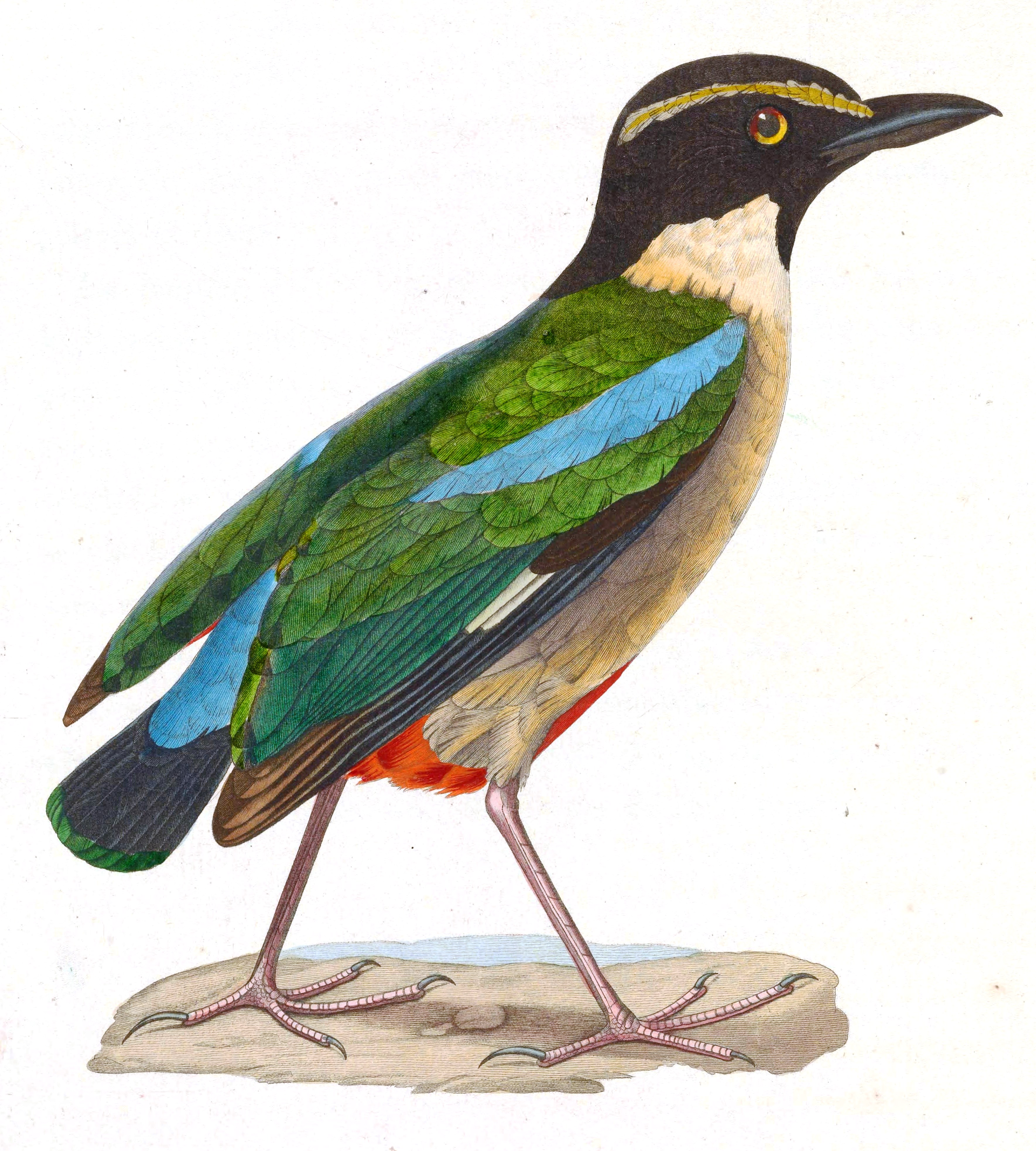 « Pitta elegans » = Pitta elegans (Elegant Pitta) - adult male